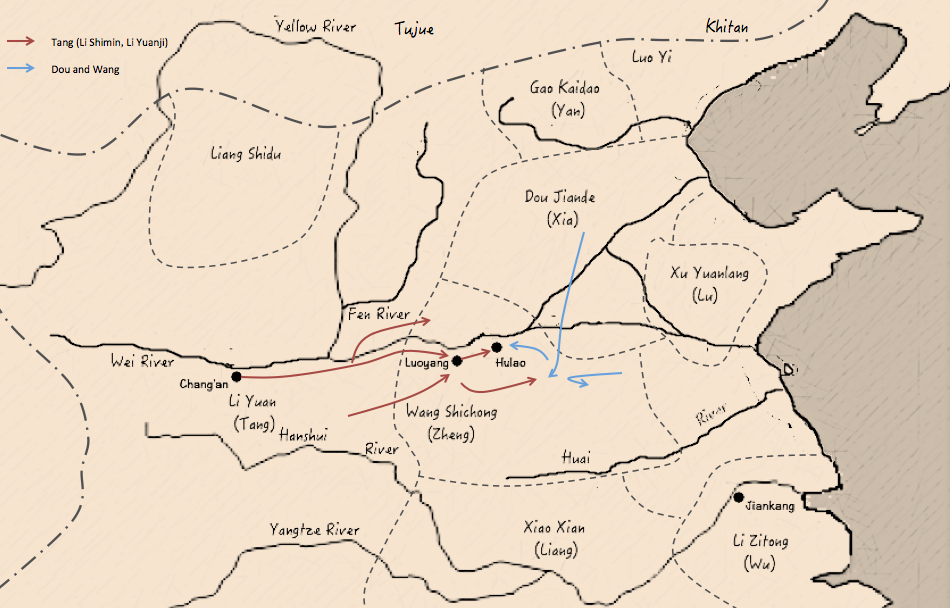 Map showing the Battle of Hulao between Tang and Dou Jiande 中文（中国大陆）: 唐灭王世充、窦建德的洛阳虎牢之战示意地图